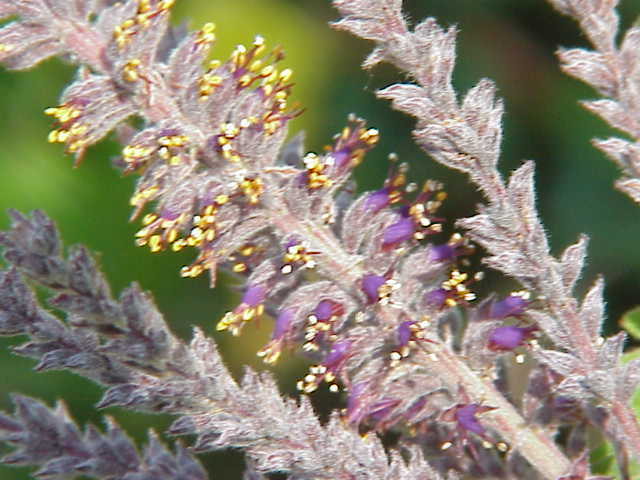 Species: Amorpha canescens Family: Fabaceae Image No. 1